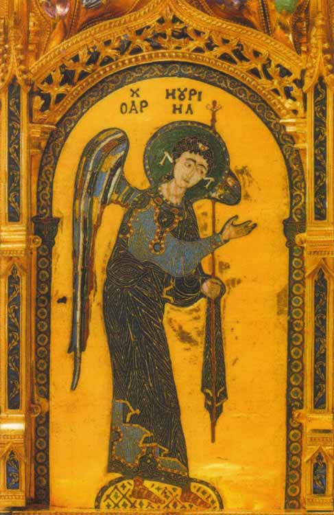 Enamel plaque of Saint Uriel the Archangel, image (icon) on the Pala d’Oro in St Mark’s Basilica, Venice.